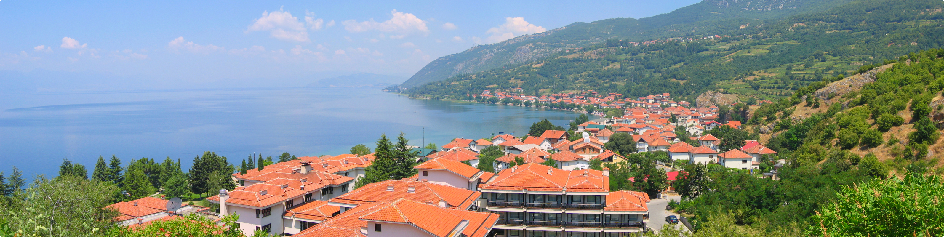 A panorama of the village of Peštani in Macedonia.